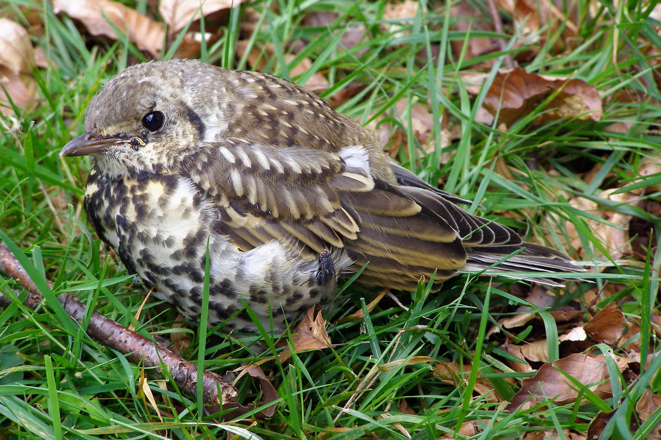 A fledgling Mistle Thrush with several ticks, not looking too happy. It was sat on the ground in the woods just west of Bratley Inclosure. Perhaps it had been ejected from a nest, in a reversal of the usual scheme.